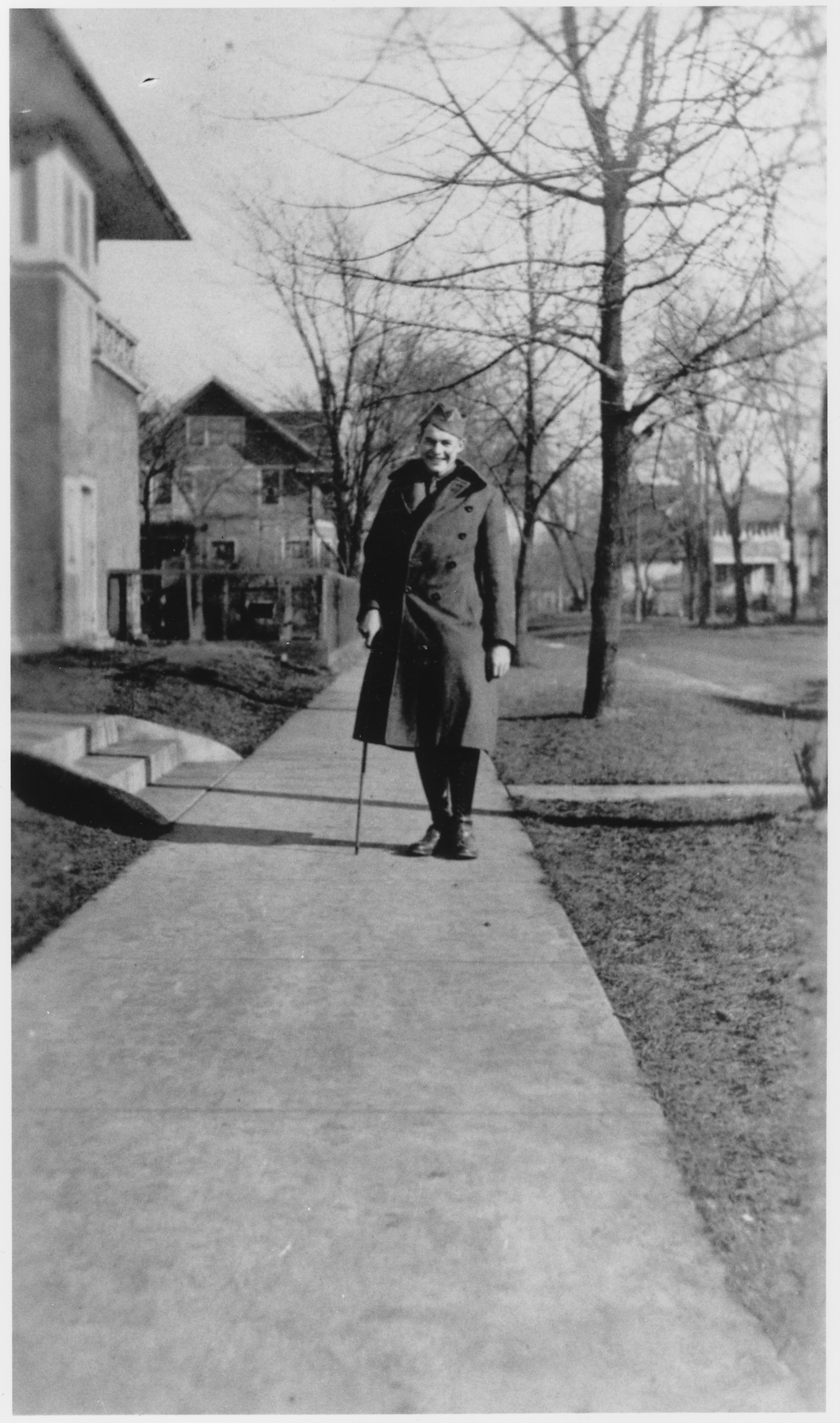 Scope and content: Photograph of Ernest Hemingway in uniform at Oak Park, Illinois.